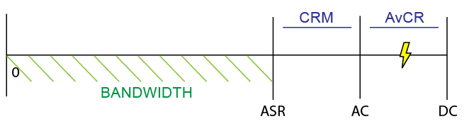 description of GCAC Algorithm for bandwidth allocation